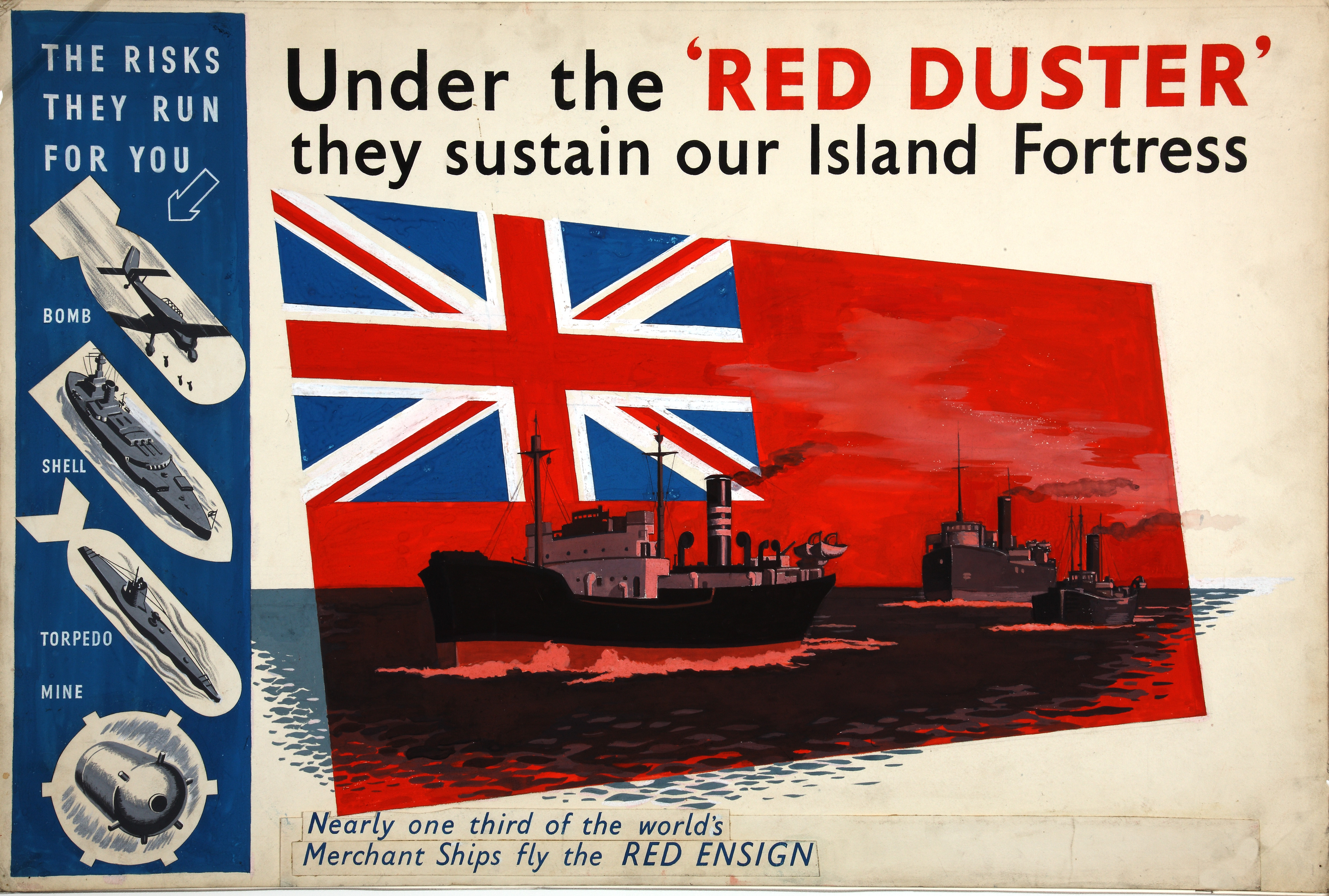 "Under the 'Red Duster' they sustain our Island Fortress. Nearly one third of the world's merchant ships fly the red ensign"